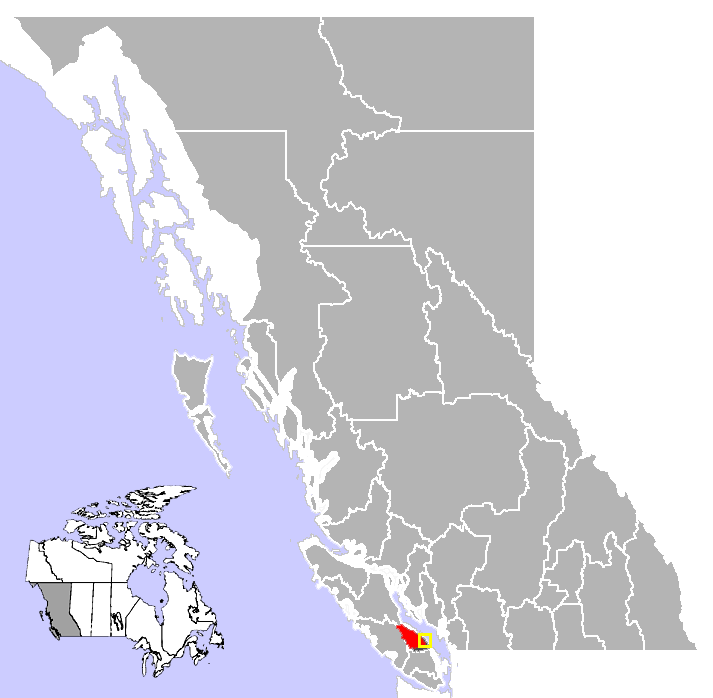 Location of Nanaimo, Nanaimo District, BC